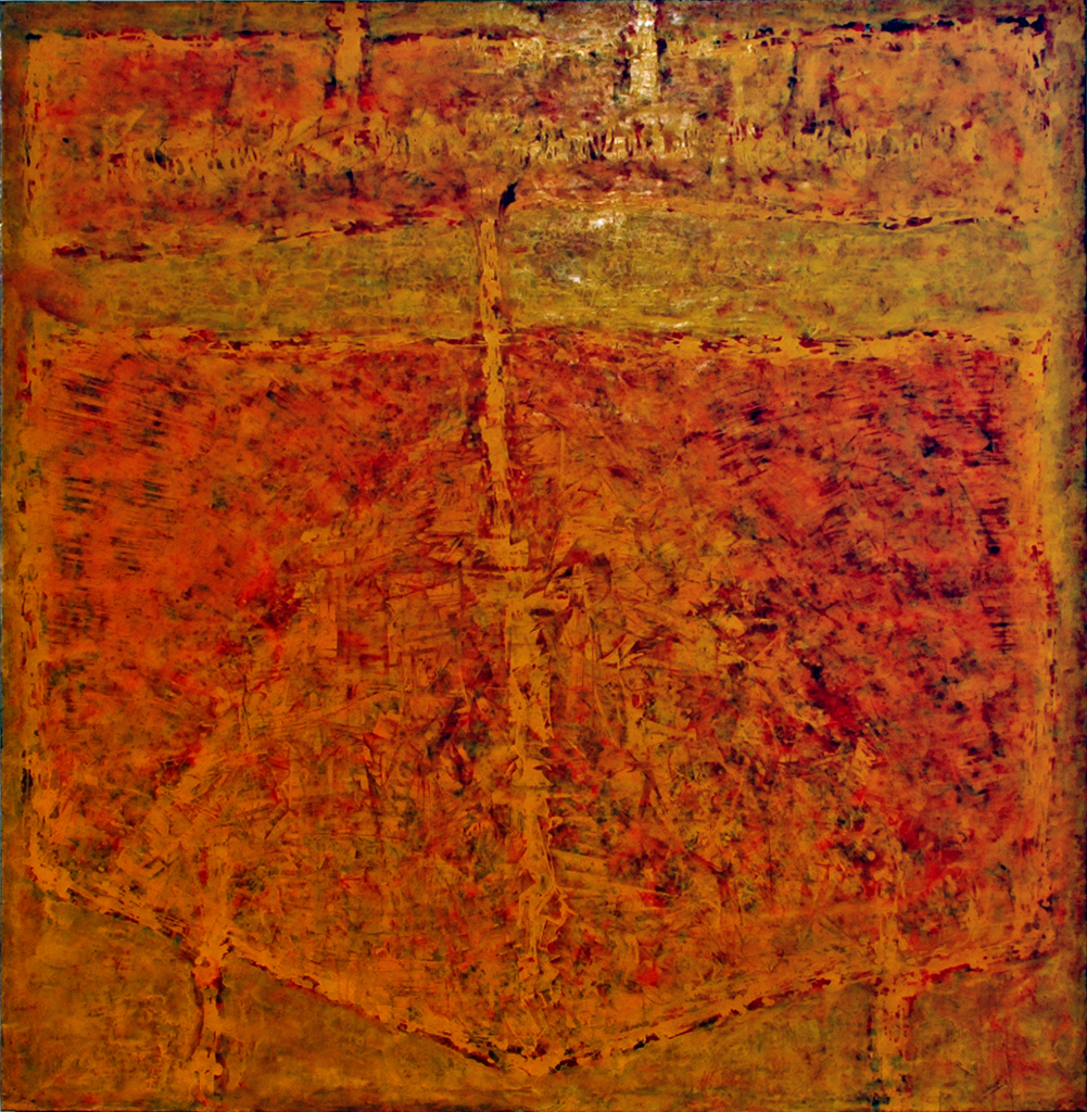 Painting by Jan Koblasa, Redheaded manikin, oil on canvas (1960)